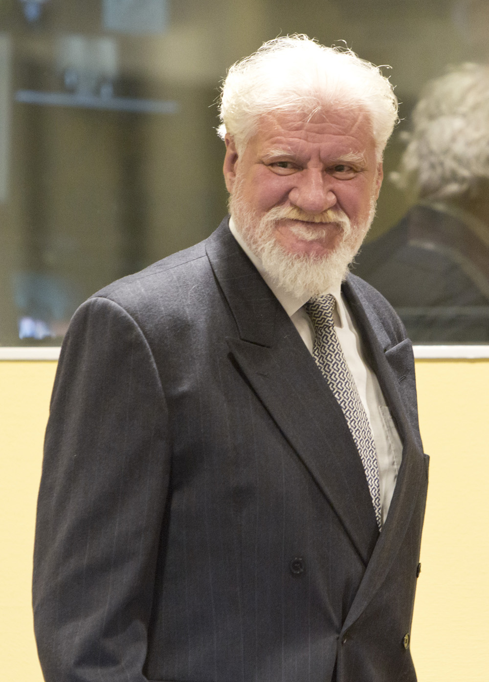 Slobodan Praljak, one of the six accused in the Prlić case, at the Trial Judgement in 2013